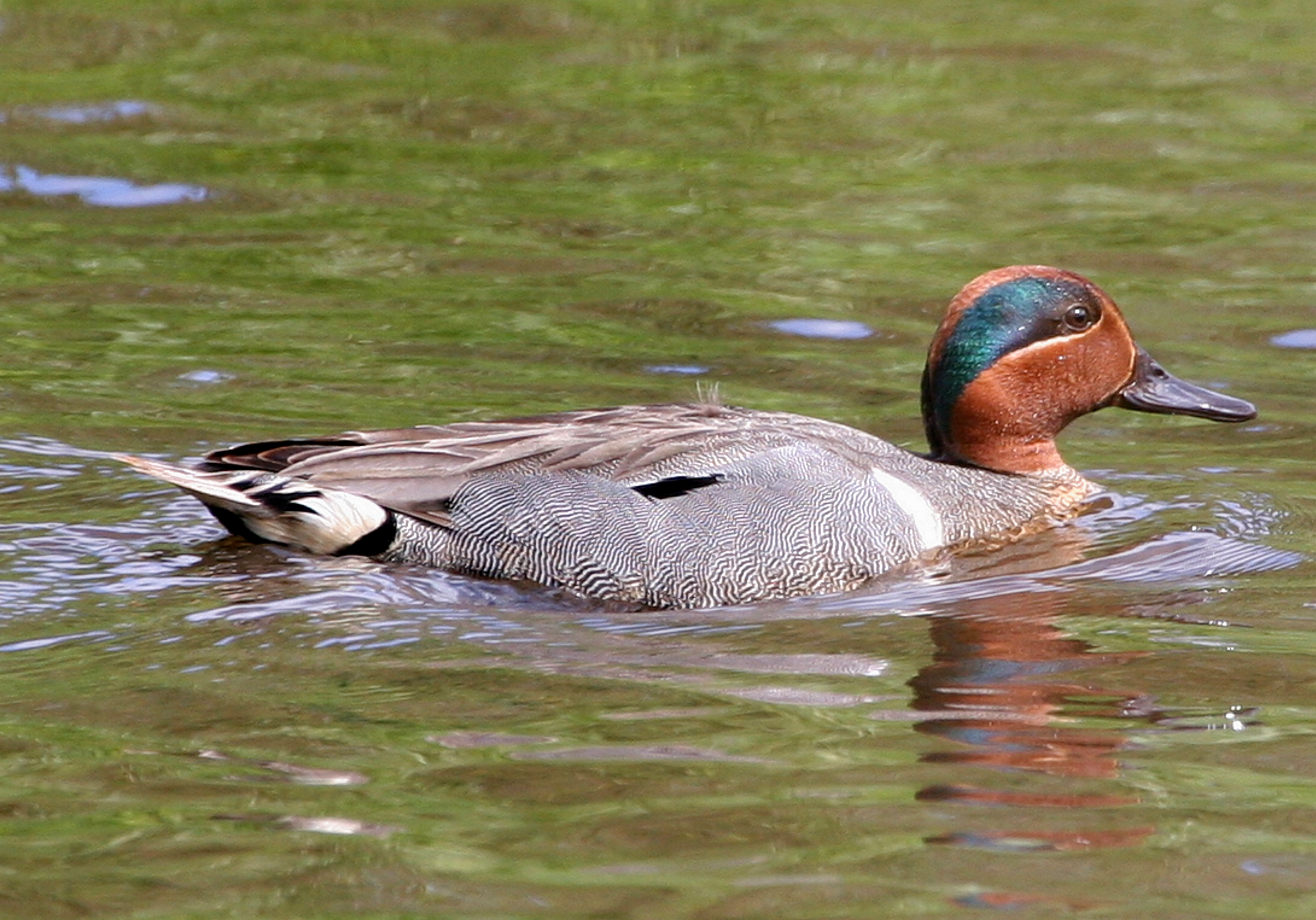 Green-winged Teal Anas carolinensis, male. Westchester Lagoon, Anchorage, Alaska